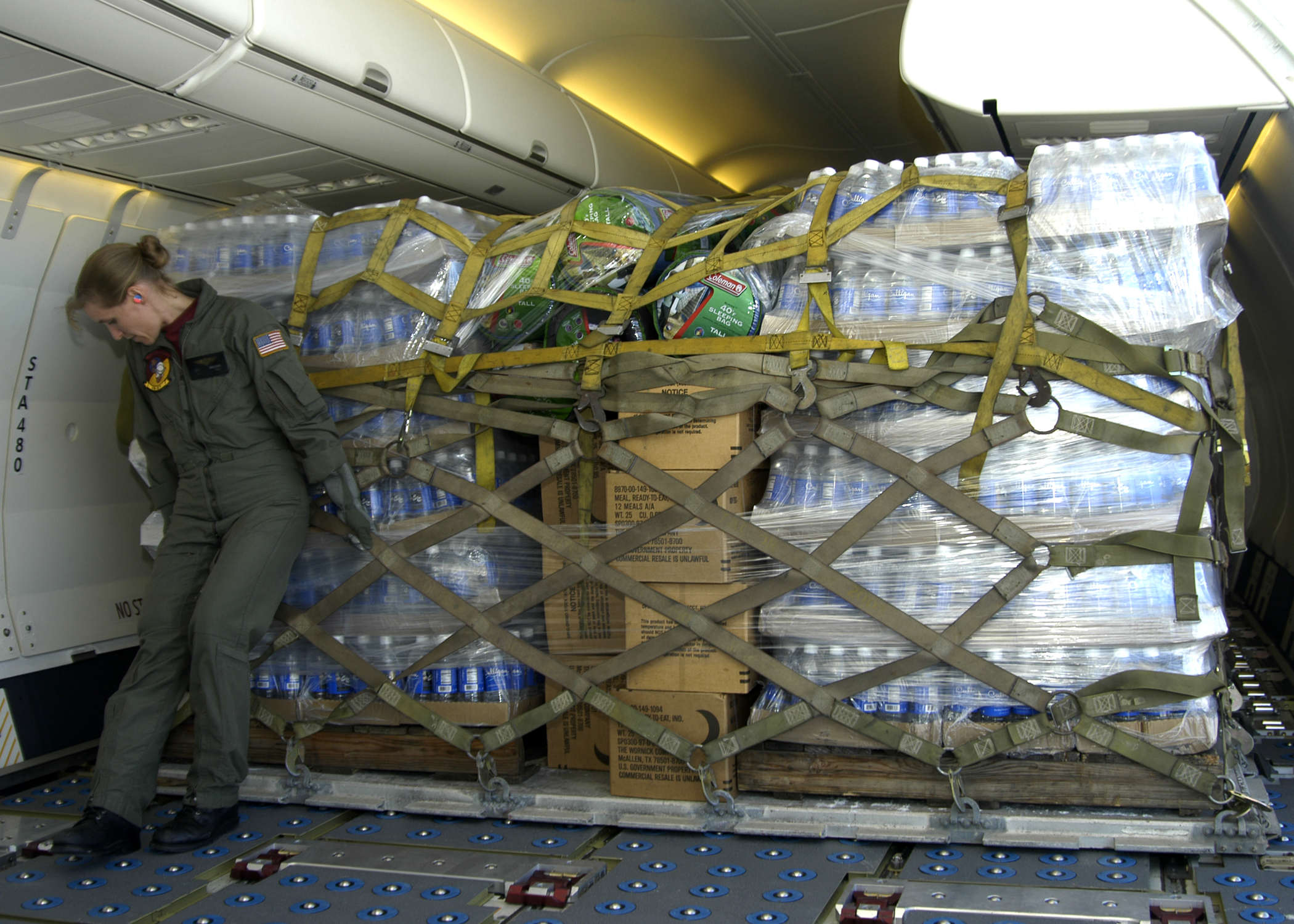 San Diego (Sept. 3, 2004) – U.S. Navy Aviation Warfare Systems Operator 1st class Amy Skillings, a load master trainee assigned to Fleet Logistics Squadron Five Seven (VR-57), pushes into place, a pallet of relief supplies for the victims of Hurricane Katrina. The Navy's involvement in the Hurricane Katrina humanitarian assistance operations is led by the Federal Emergency Management Agency (FEMA), in conjunction with the Department of Defense. U.S. Navy photo by Photographer’s Mate 2nd Class Scott Taylor (RELEASED)